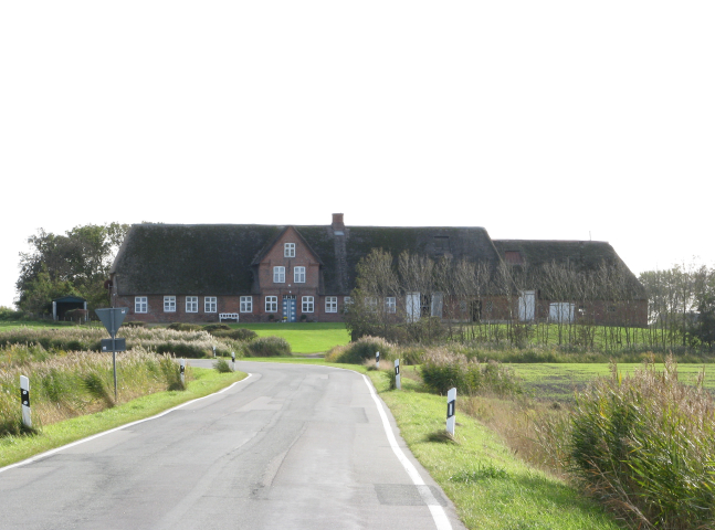 Dwelling mound Peterswarf in Ockholm.